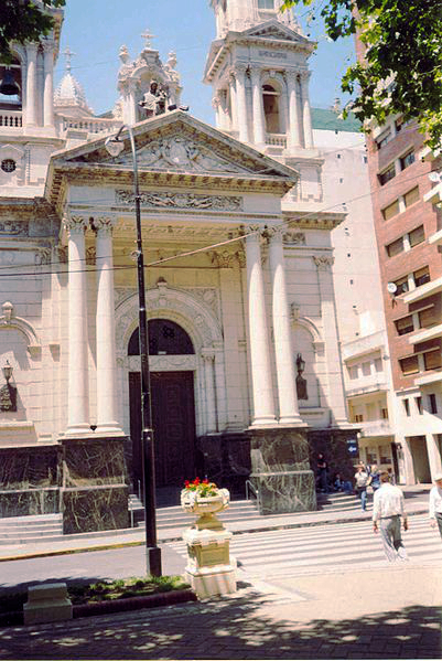 The Basilica Cathedral of Our Lady of the Rosary, in Rosario, Argentina. The Cathedral is part of the historical downtown. It is located on Buenos Aires St., beside the Palacio de los Leones (the town hall) and a few hundred metres from the National Flag Memorial on the Paraná River. I, Pablo D. Flores, took this picture myself in October 2005.